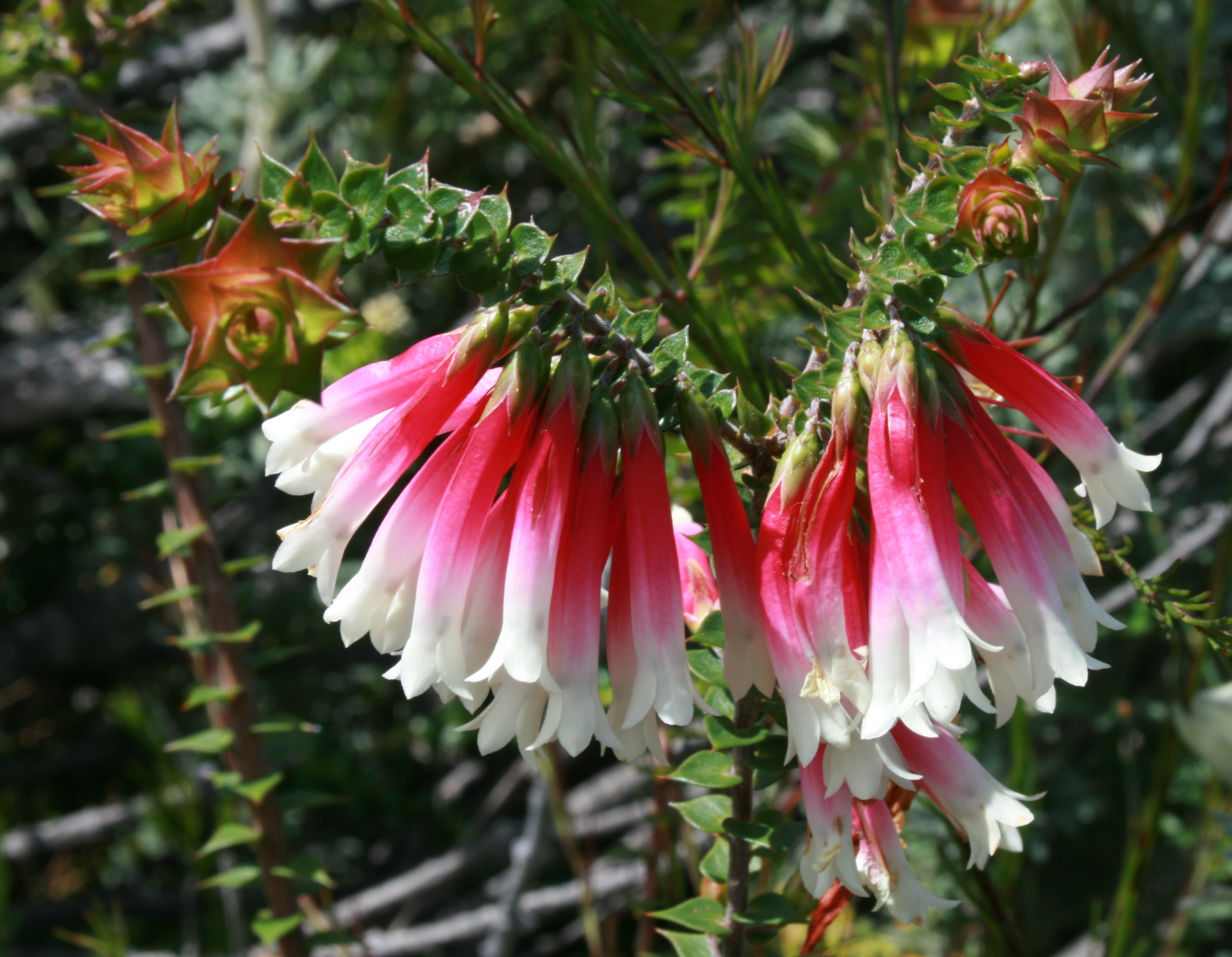 Epacris longiflora in Grotto Point Reserve, Sydney, New South Wales, Australia